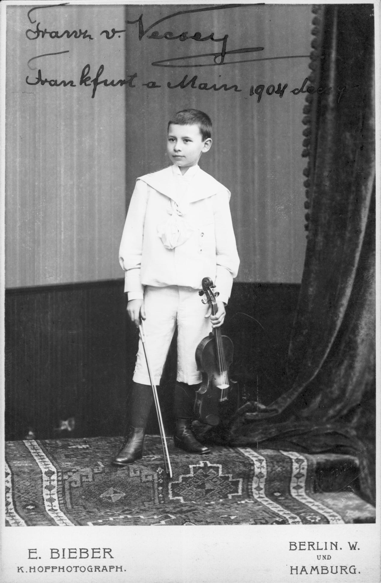 Hungarian prodigy violinist Franz von Vecsey (1893—1935)